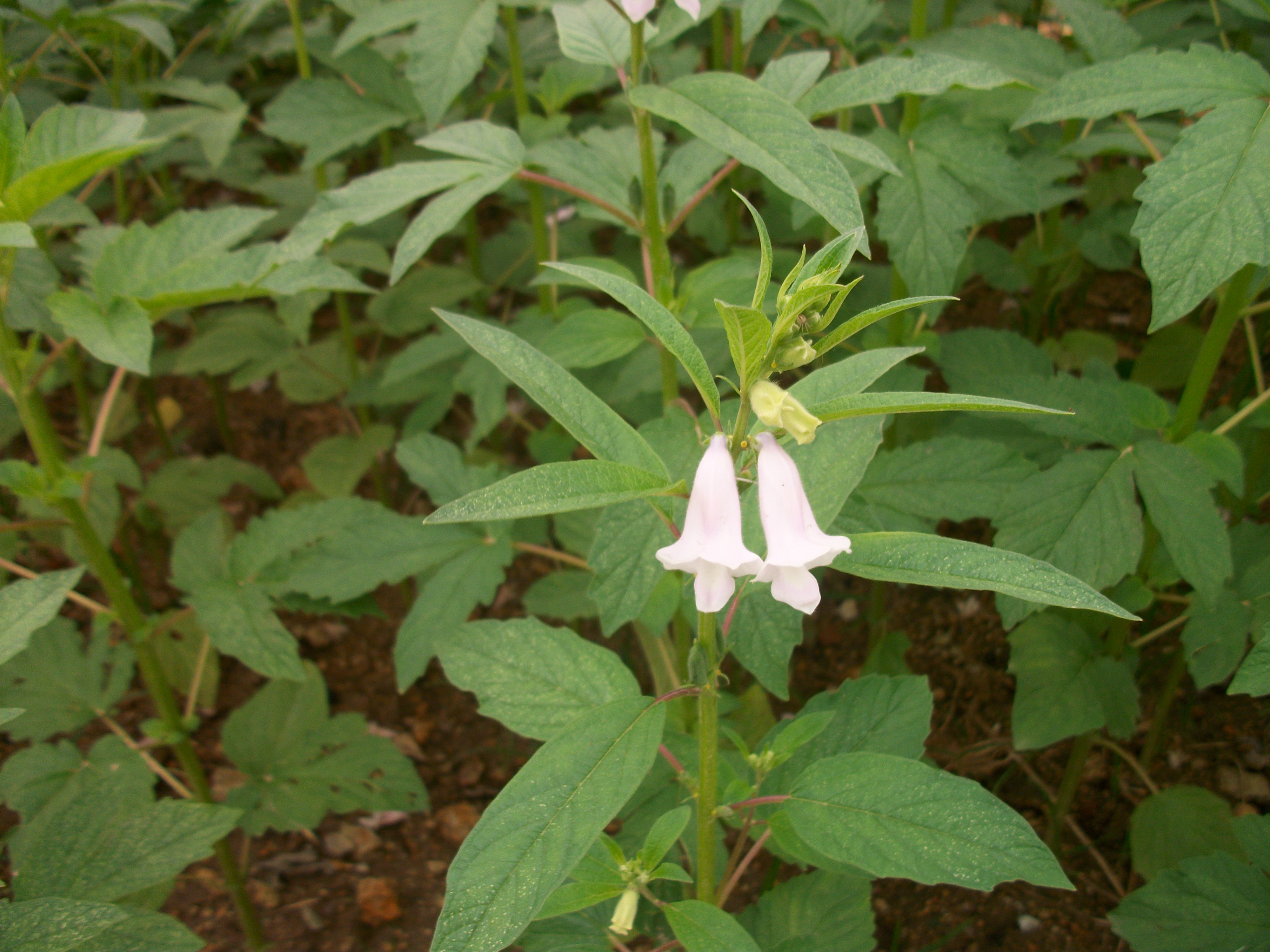 Flowers of Sesamum indicum。